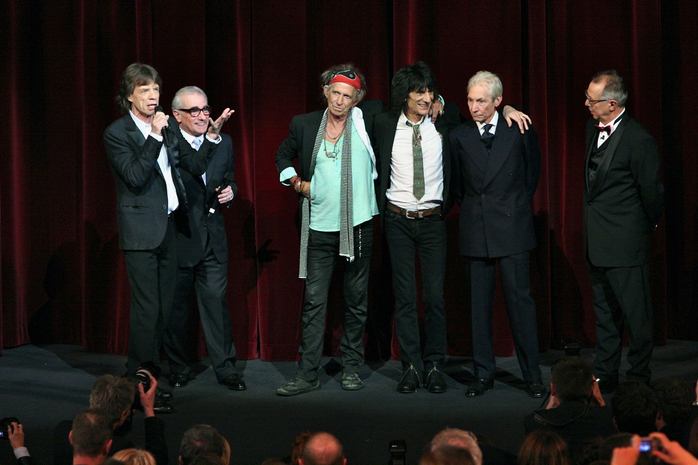 From left to right: Mick Jagger, Martin Scorsese, Keith Richards, Ron Wood, Charlie Watts and Berlinale director Dieter Kosslick before the world premiere of the Rolling Stones concert documentary Shine A Light on February 7, 2008 at the Berlin International Film Festival (Berlinale).